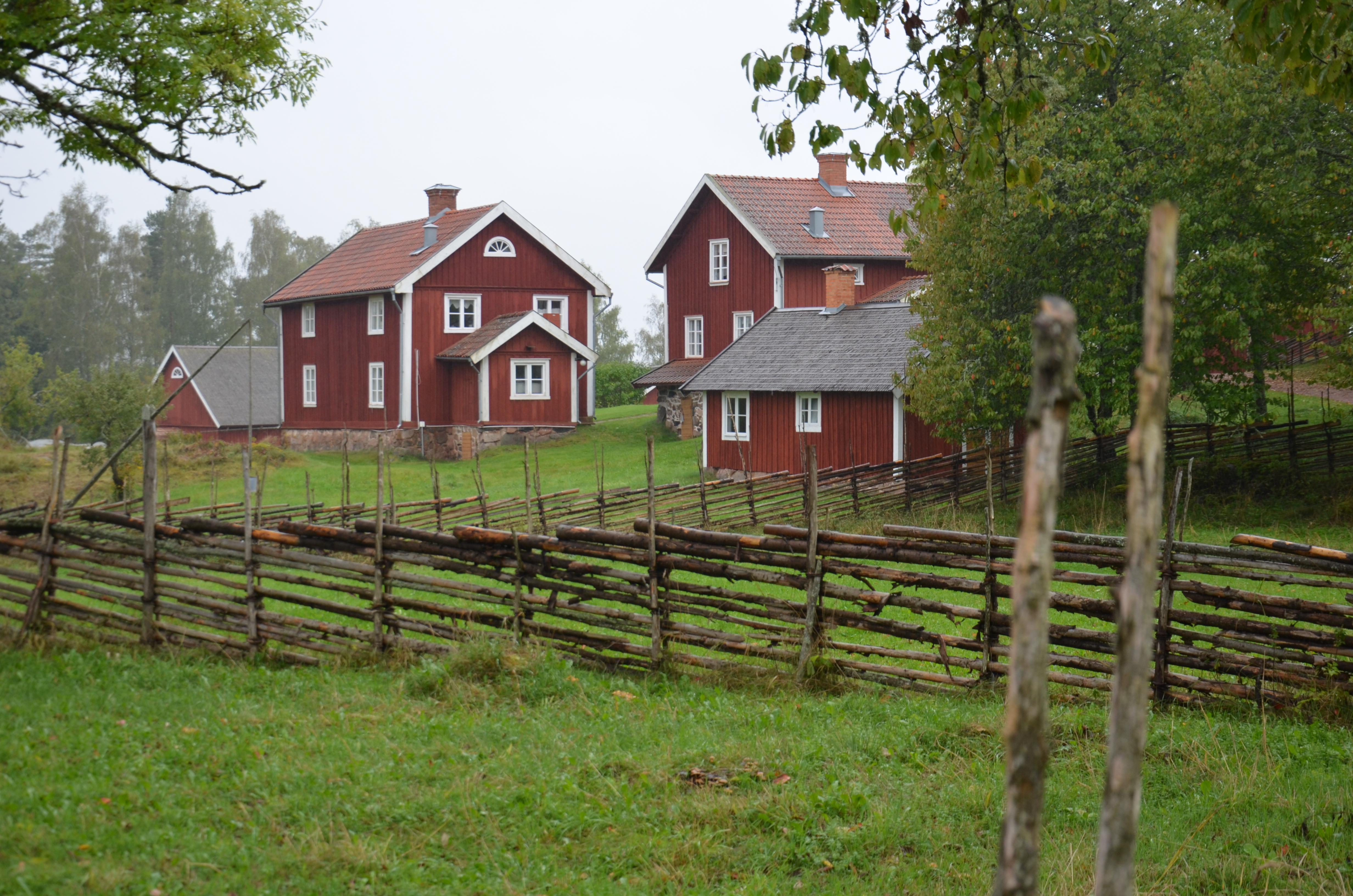 Village Åsen,Swedish heritage area, Haurida